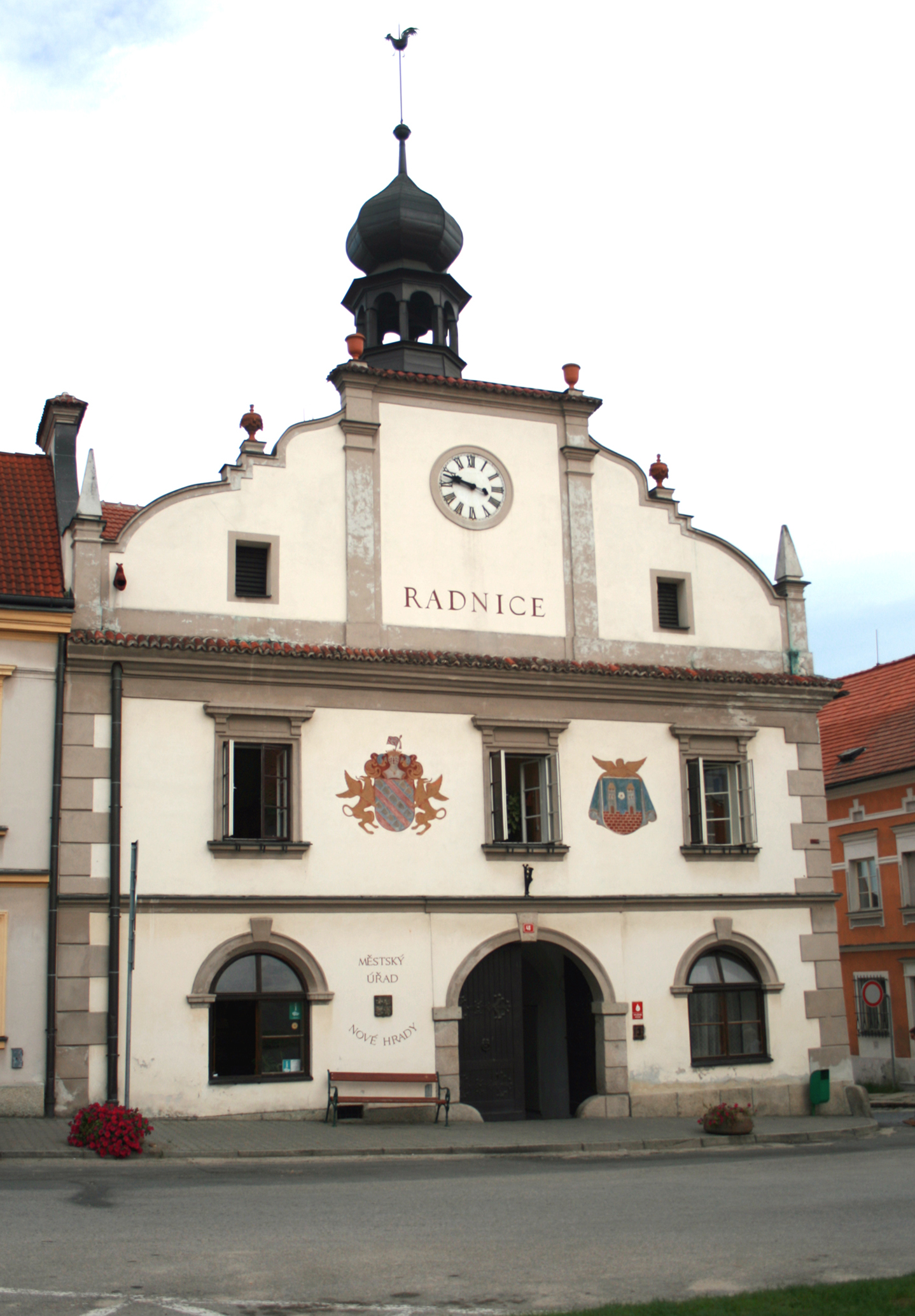 Townhall in Nové Hrady, South Bohemia, Czech Republic